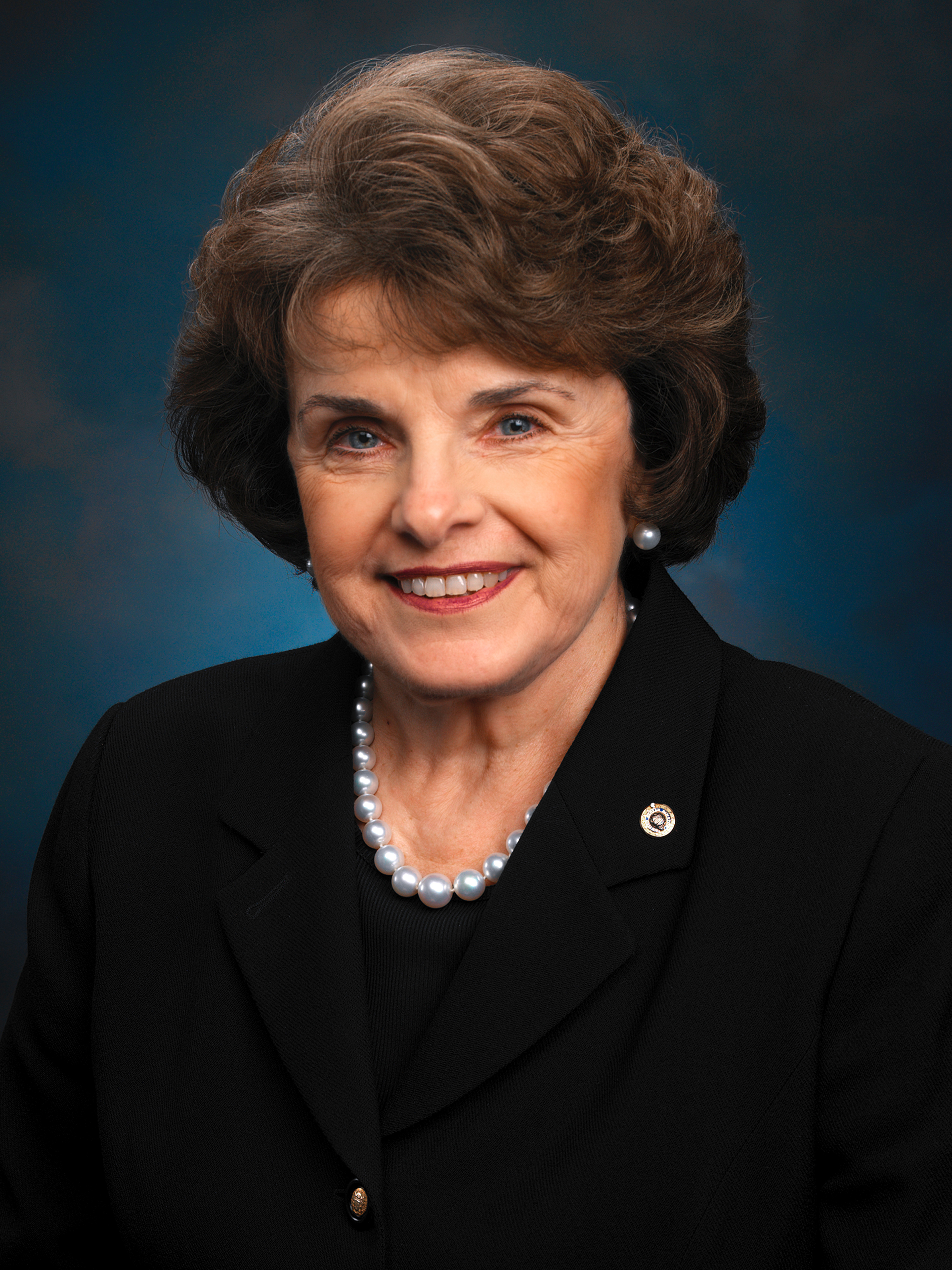 Dianne Feinstein, member of the United States Senate.